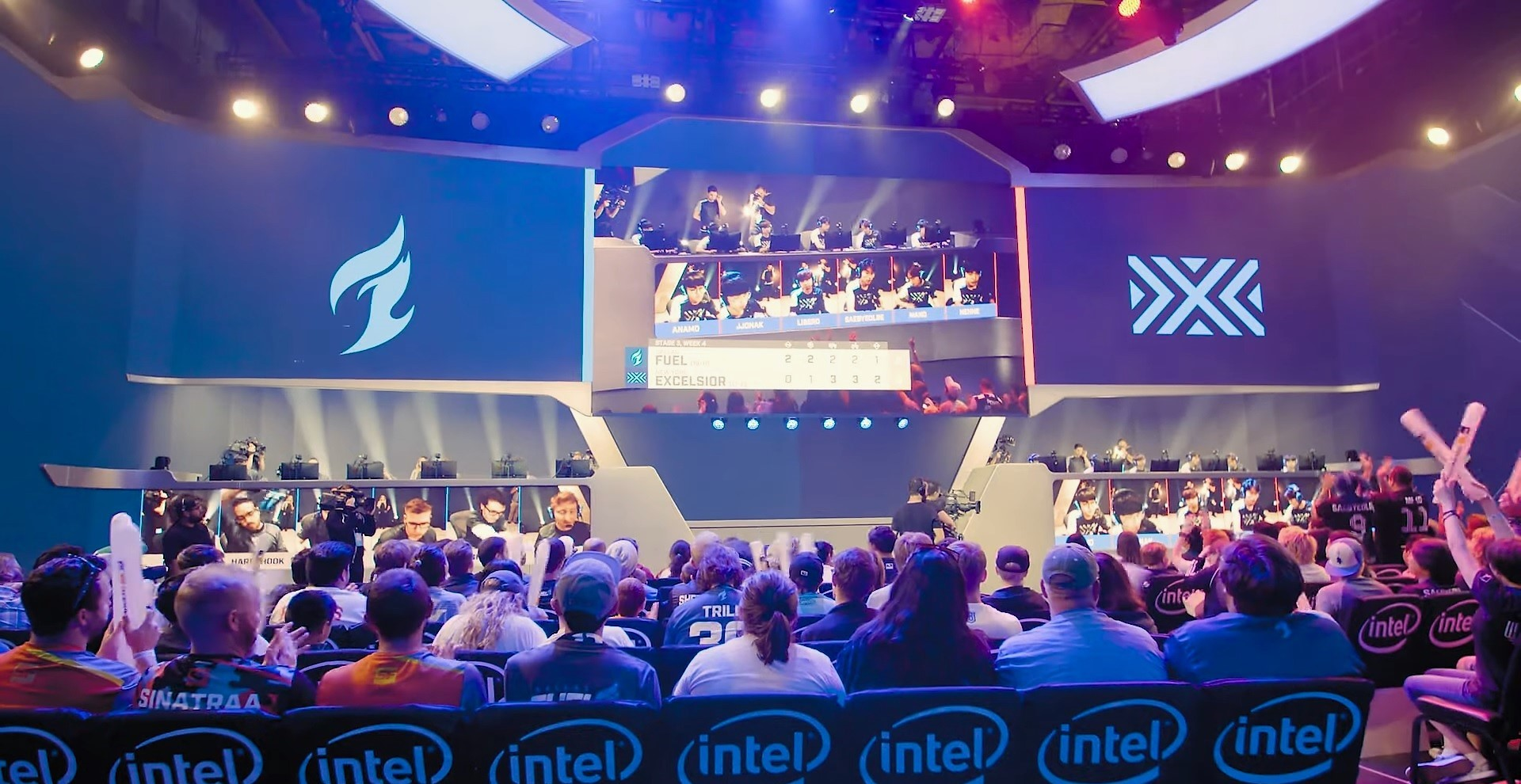 Dallas Fuel versus New York Excelsior on June 29, 2019 at the Blizzard Arena.